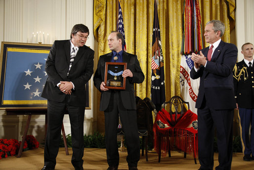 President George W. Bush applauds after presenting the Medal of Honor posthumously to family members of U.S. Army Master Sgt. Woodrow Wilson Keeble, Monday, March 3, 2008 in the East Room of the White House, in honor of Master Sgt. Keeble’s gallantry during his service in the Korean War. Kurt Bluedog, left, Keeble’s great nephew, and Russ Hawkins, a step-son, accepted the award honoring Keeble, the first full-blooded Sioux Indian to receive the Medal of Honor.